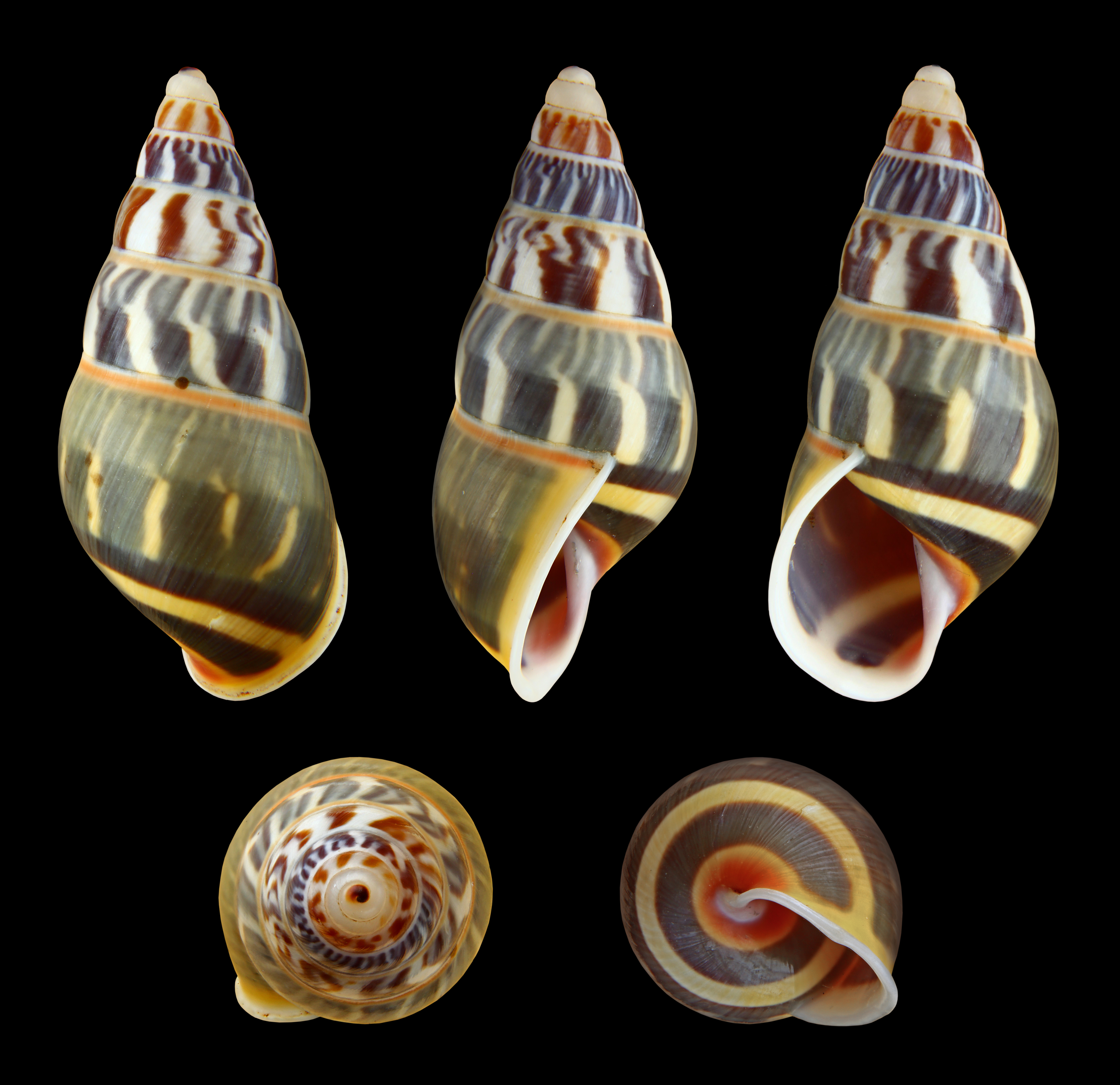 Length 3.5 cm; Originating from the Puring, Palawan, Philippines; Shell of own collection, therefore not geocoded. Dorsal, lateral (left side), ventral, back, and front view.